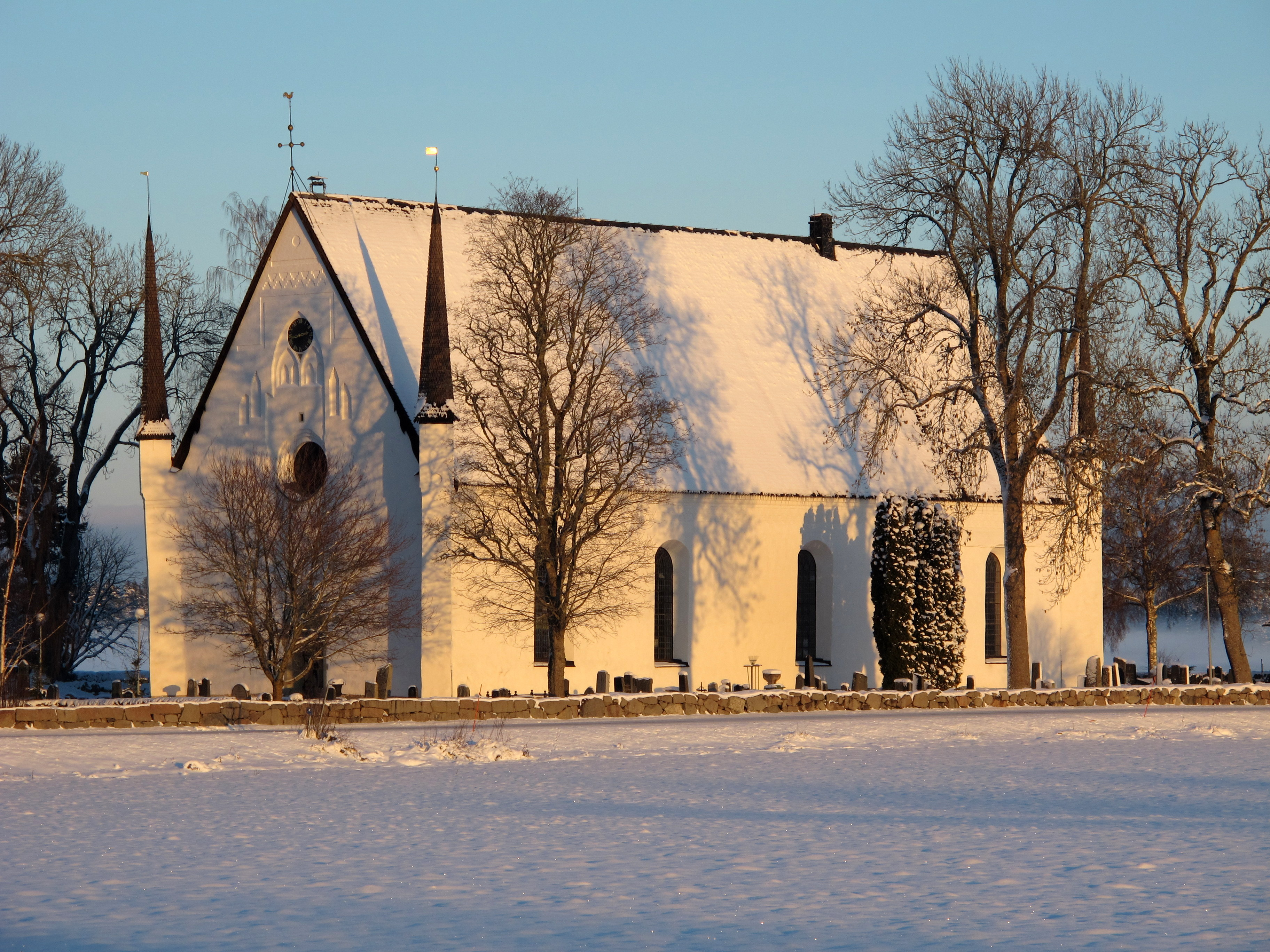 Church of Tierp in January 2014.